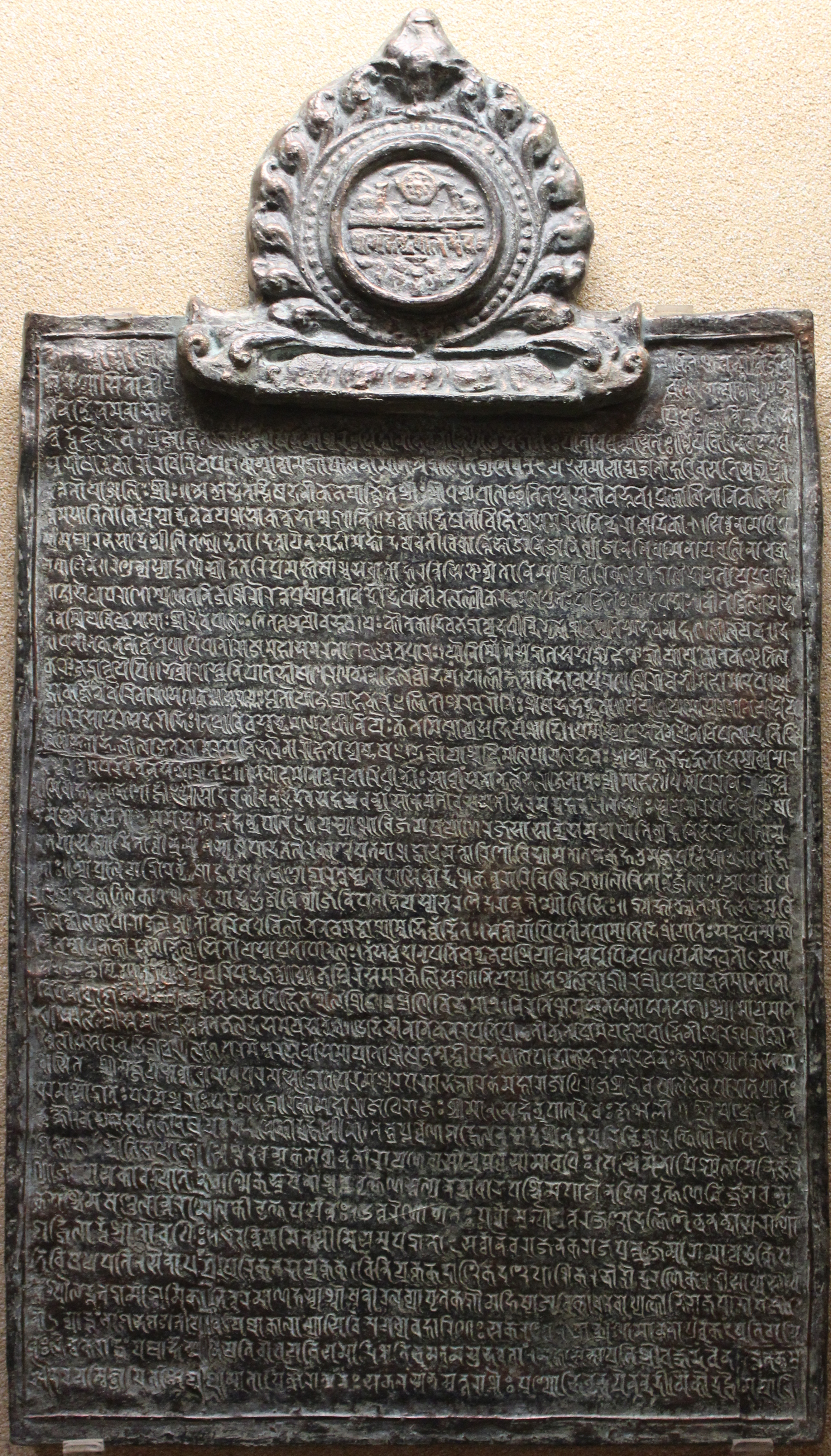 State Archaeological Museum in West Bengal- 1, Satyen Roy Rd, Auddy Bagan Basti, Behala, Kolkata, West Bengal 700034- First Floor- Nandadirghi Vihara, Jagjivanpur Gallery. Description : The copper plate is inscribed on the both sides (40 lines on the obverse and 32 lines on the reverse) in Siddhamatrika script prevalent in the 9th century in Sanskrit language. A royal seal is attached to the top of the plate, which comprises within a lotus, a dharmachakra at the centre, flanked by deers on either side and the legend Shri Mahendrapaladeva below. The weight of the copper plate is 11.85 kg and it measures 52 cm x 37.5 cm. The copper plate was issued by the emperor Mahendrapala on the 2nd day of Vaisakha month of his seventh regnal year (854) from Kuddalakhataka jayaskandhavara (camp of victory) in the Pundravardhana bhukti. It states that the emperor Mahendrapala, the son and successor of Devapala, announced before the body of the officers and other persons assembled on the occasion of a land grant ceremony that his mahasenapati (general) Vajradeva had intended to donate the land adjacent to the Nandadirghika Udranga Mahavihara, erected by him for attainment of religious merits for his parents and all people on earth for the worship of the Buddhist deities and maintenance and performance of religious rites which include copying (manuscripts) by the monks residing in the Vihara.